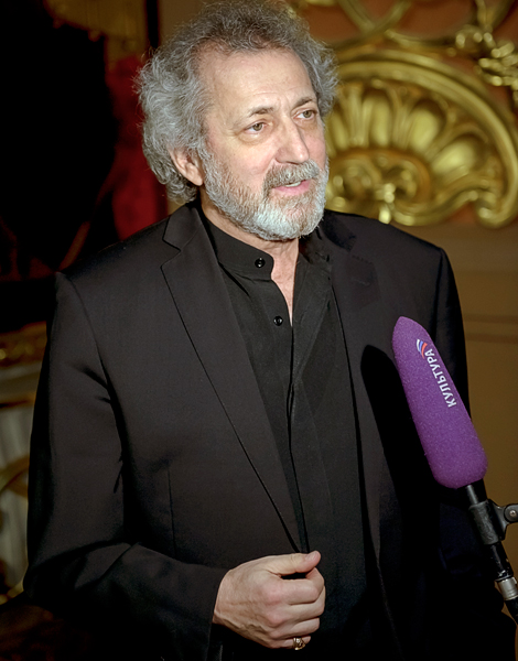 Boris Eifman 2013, photographer Dmitriy Dubinskiy